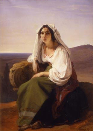 La Ciociara